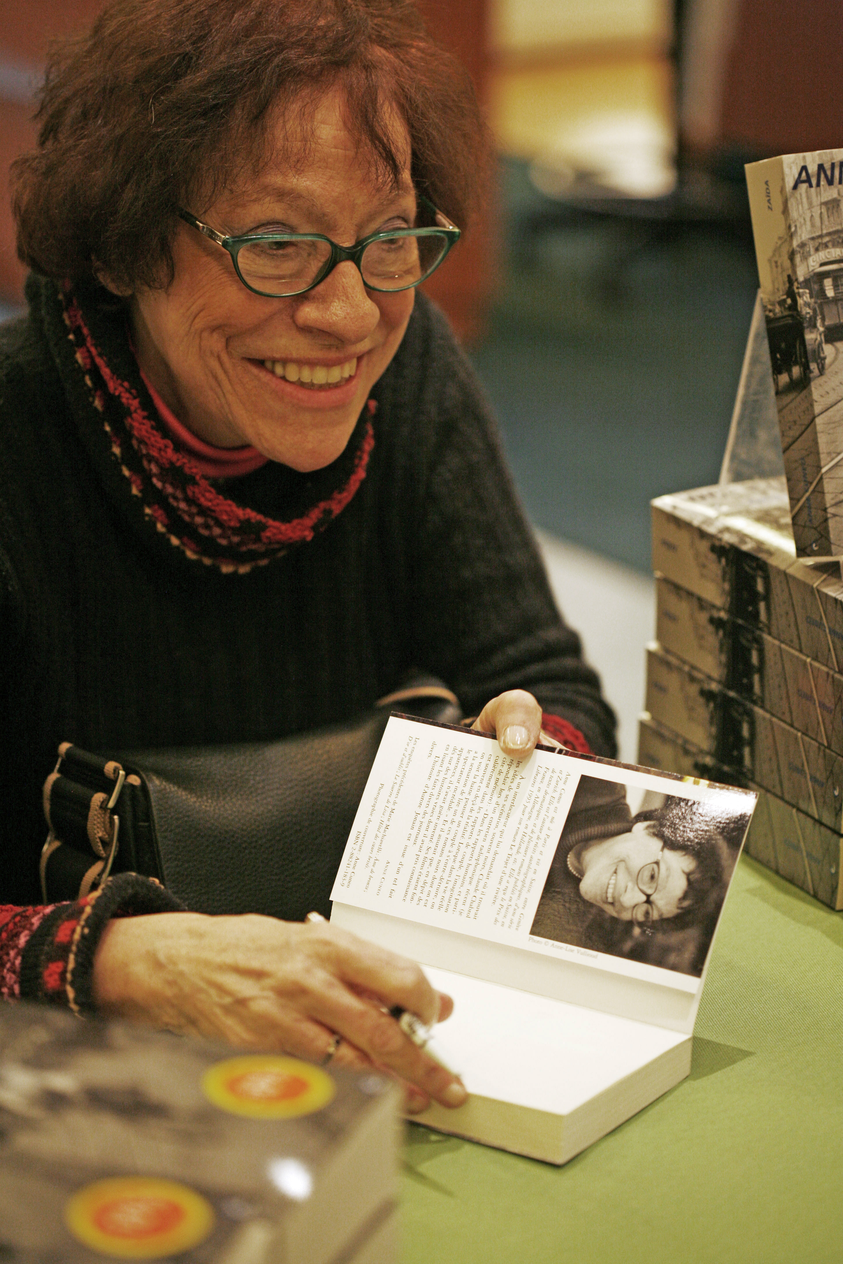 Anne Cuneo